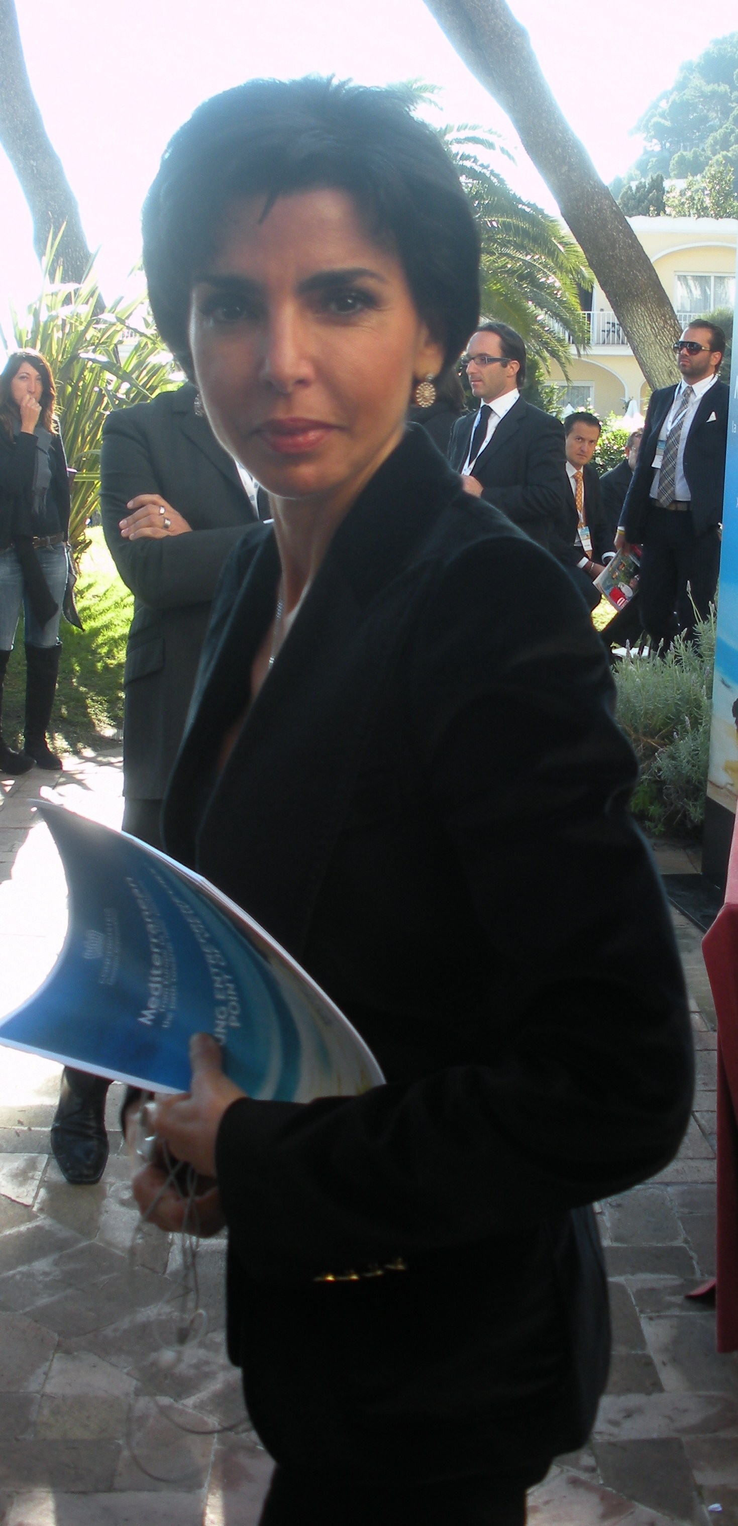 Rachida Dati, french politician.